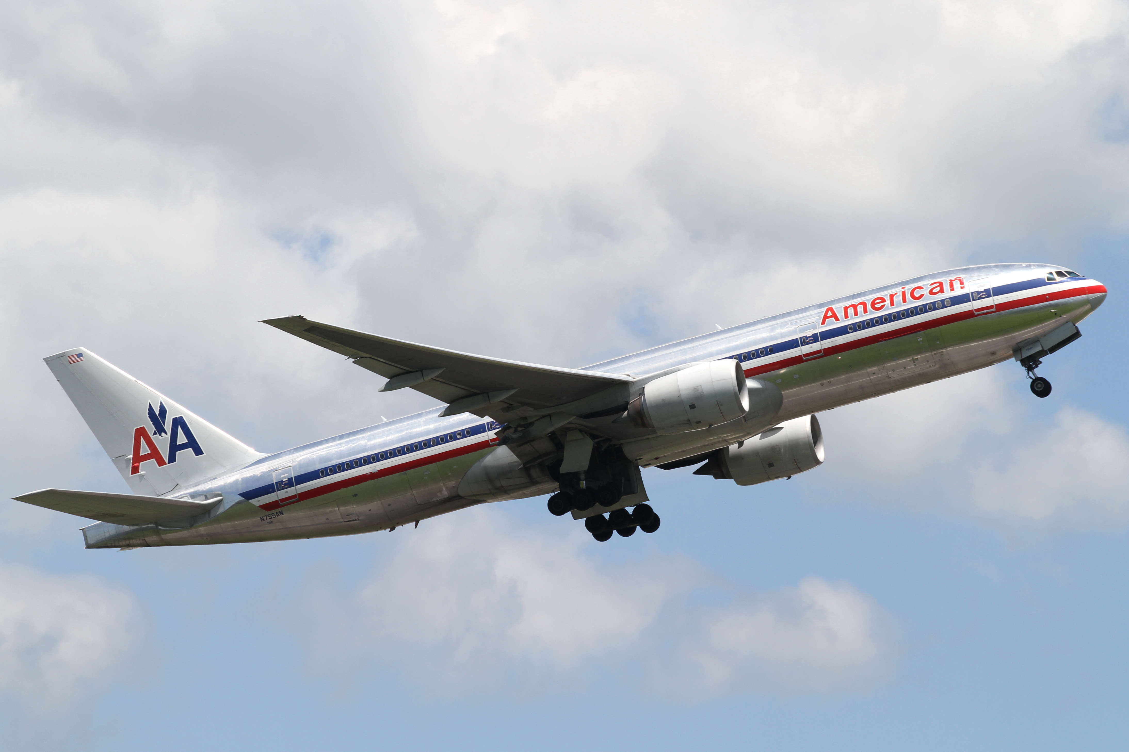 Narita International Airport, Boeing 777-223/ER, c/n:30263, American Airlines